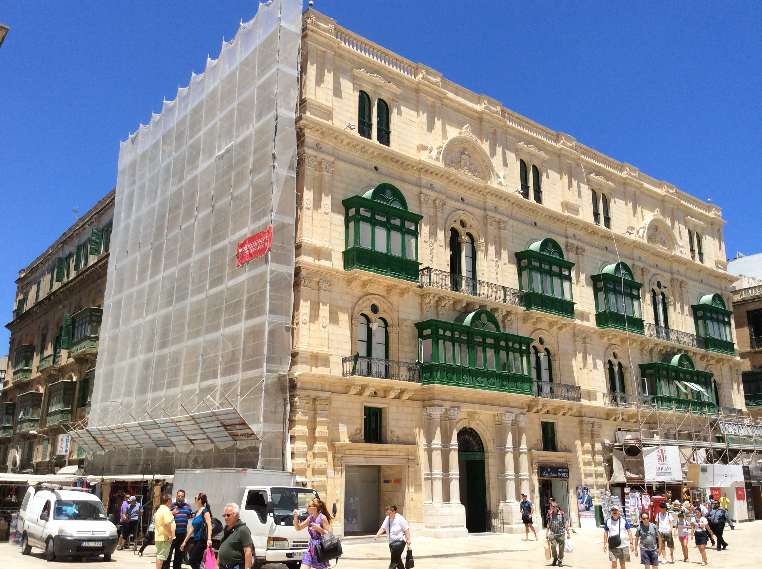 Palazzo Ferreria during restoration